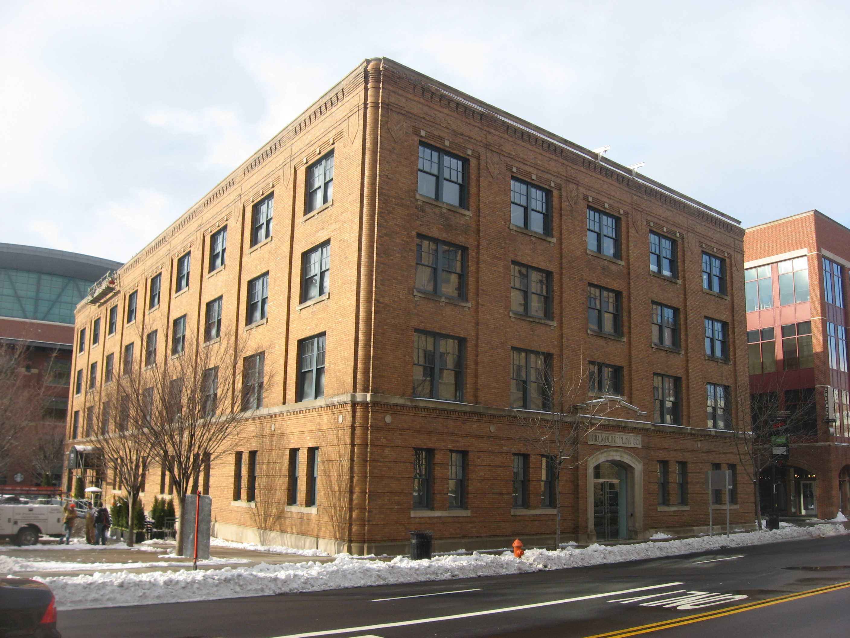 Front and southern side of the Ohio Moline Plow Company Building, located at 343 N. Front Street in downtown Columbus, Ohio, United States. Built in 1913, it is listed on the National Register of Historic Places.